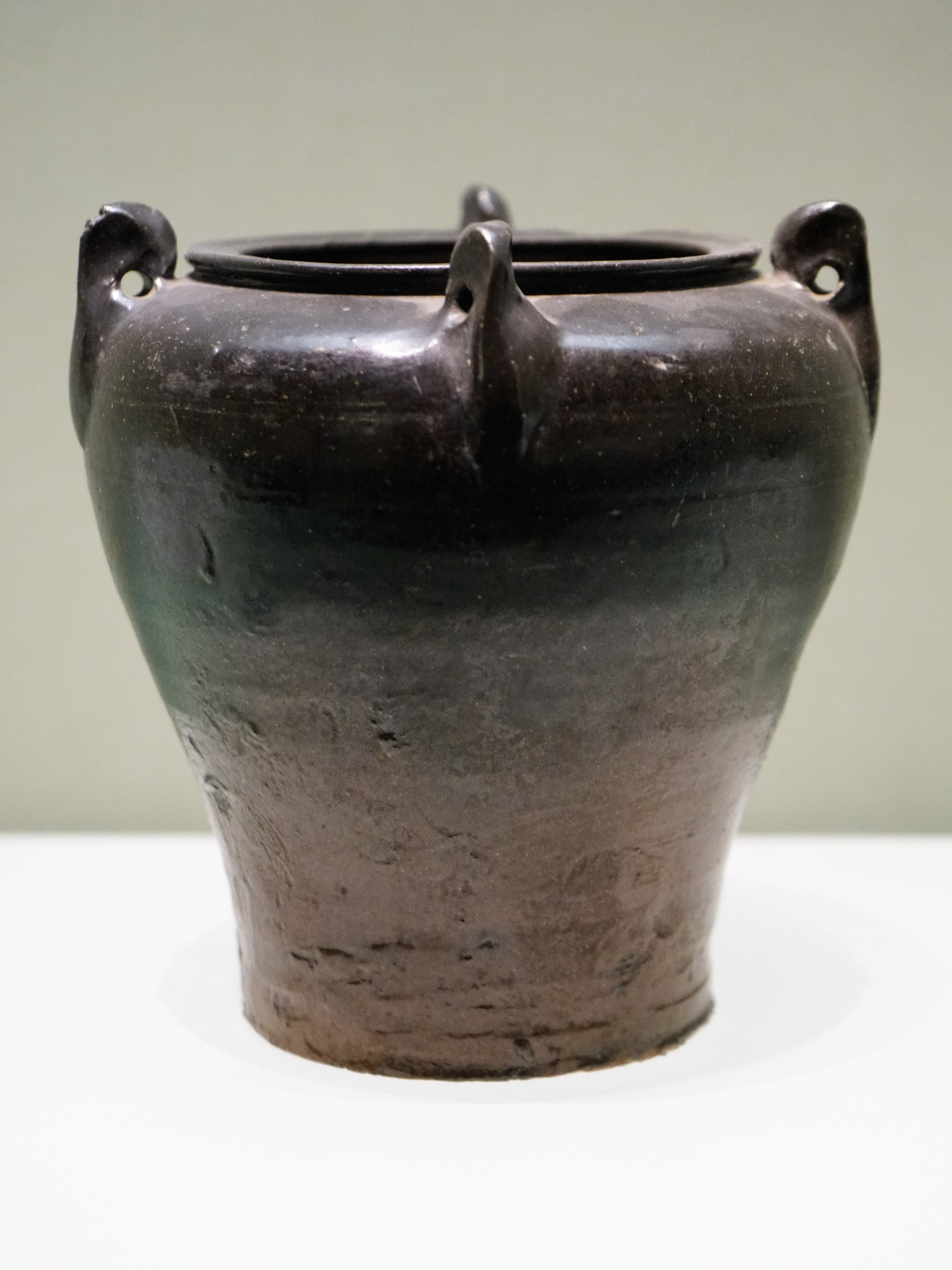 Dark Brown Pot with Four Loop Handles. Northern Qi. Unearthed from the tomb of Cui Ang, a minister of ministry of war, Shangsanji, Pingshan County. 平山上三汲兵部尚书崔昂墓出土。